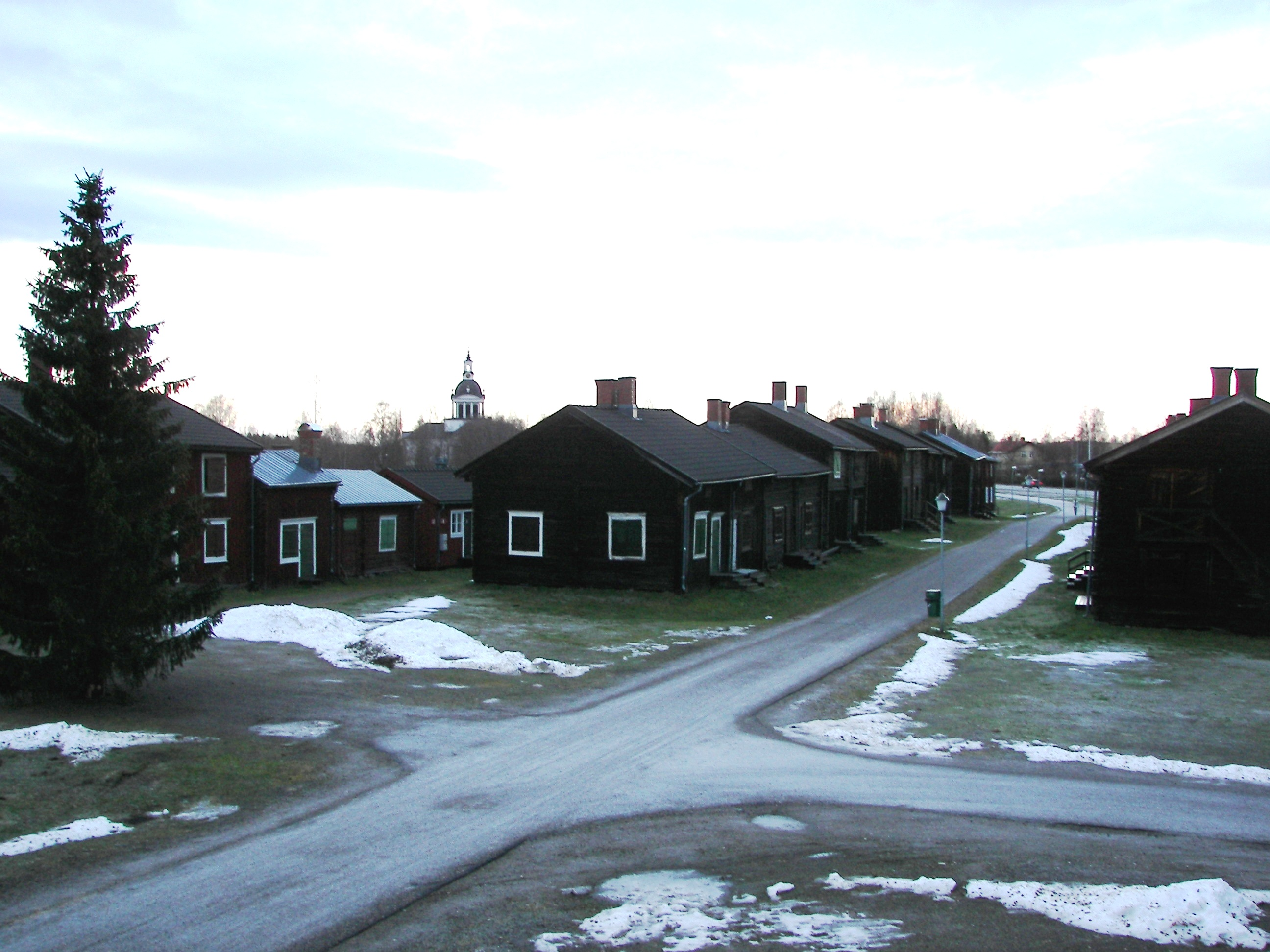 Bonnstan (Farmertown) in Skellefteå